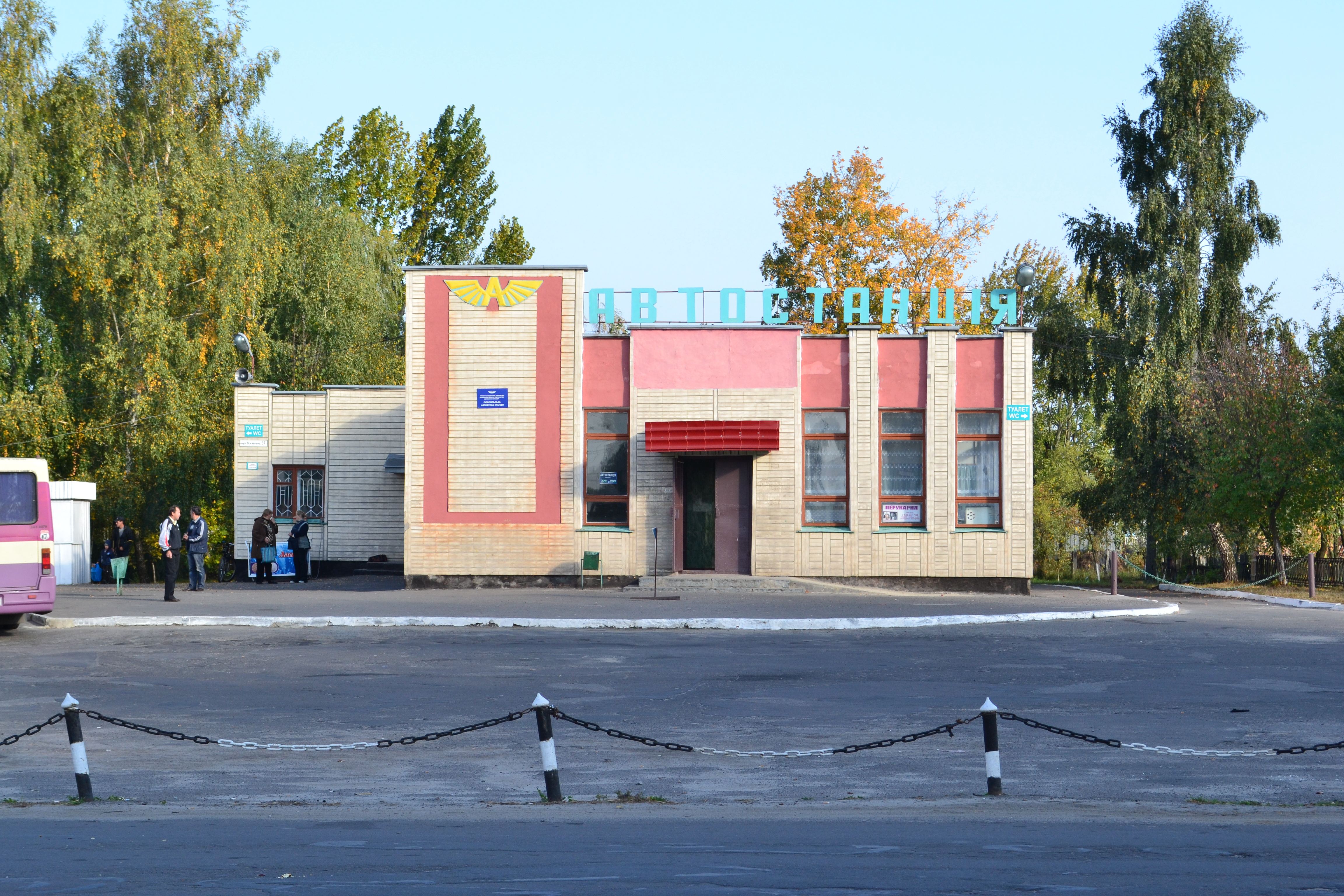 Bus station in Lyuboml